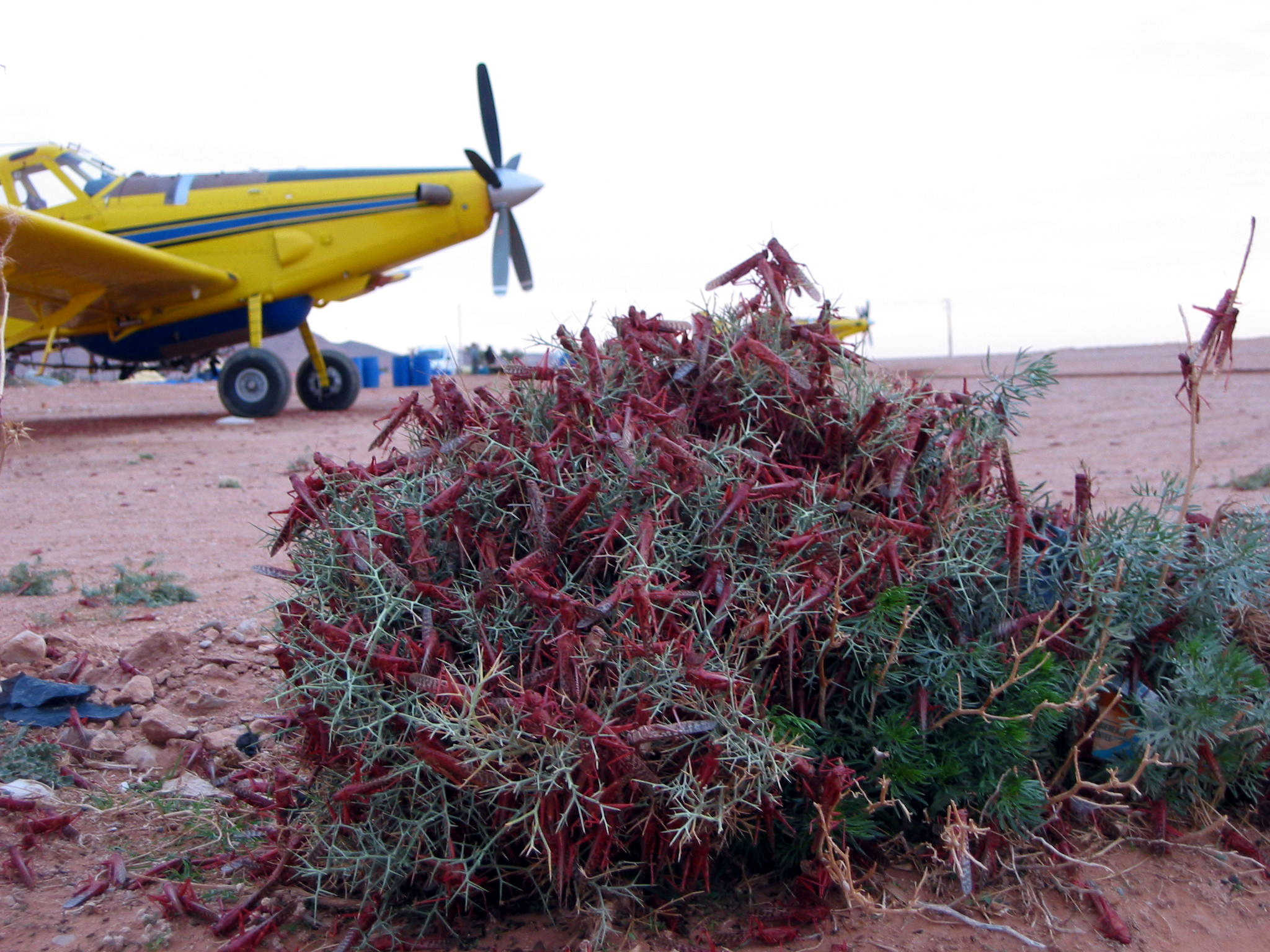 AT-802 Aircraft working against Locust in Africa. Avialsa T-35 company